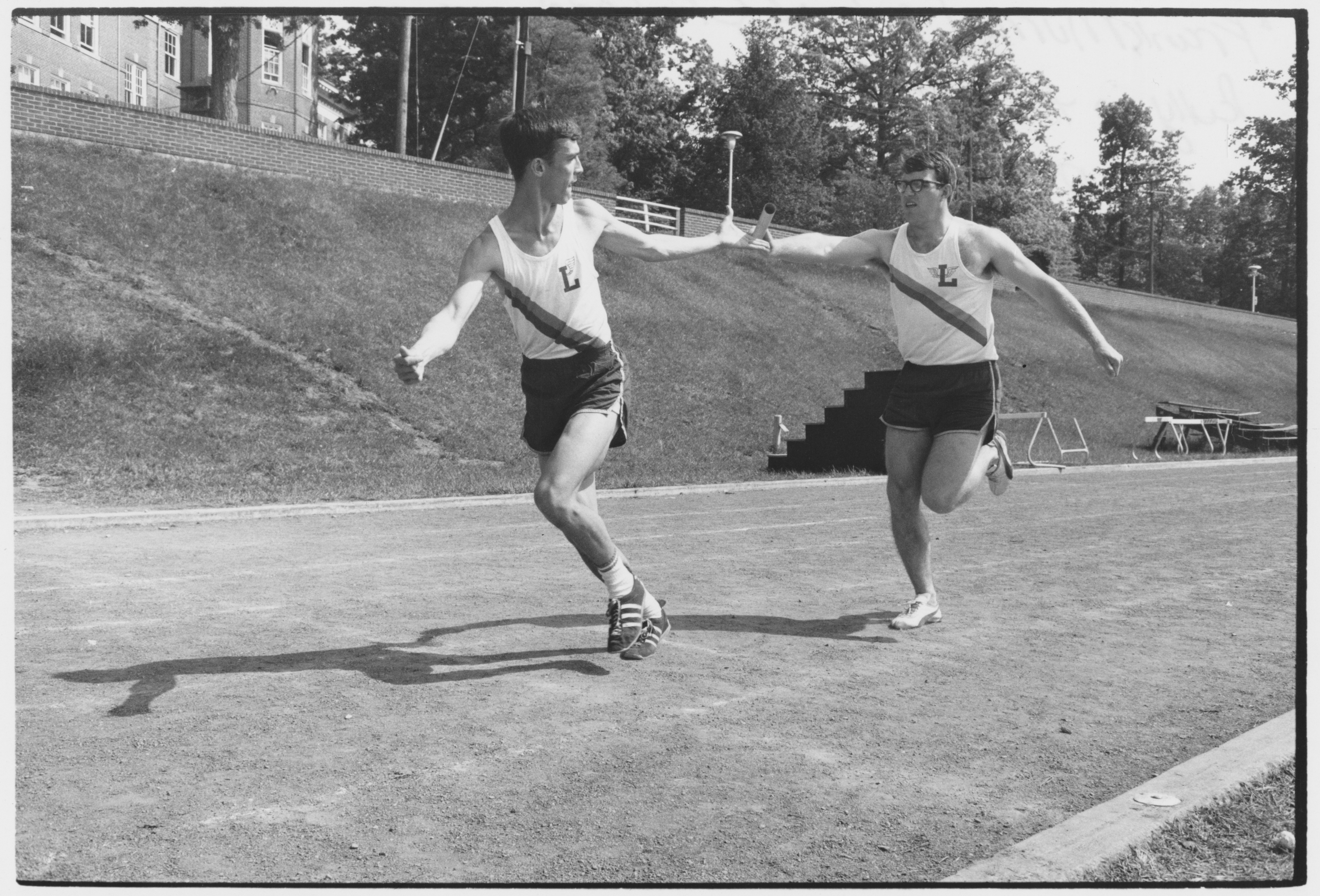 Todd Scully receives the relay baton from Frank Murray in a 1968 track meet at Lynchburg College in Virginia. This image was originally published in the 1968 Argonaut, the college's yearbook, and is now held in the University of Lynchburg archives. Todd Scully went on to compete in the 1976 Olympics for race walking, and he was selected for the 1980 U.S. Olympic team but did not compete as the U.S. boycotted the 1980 games.